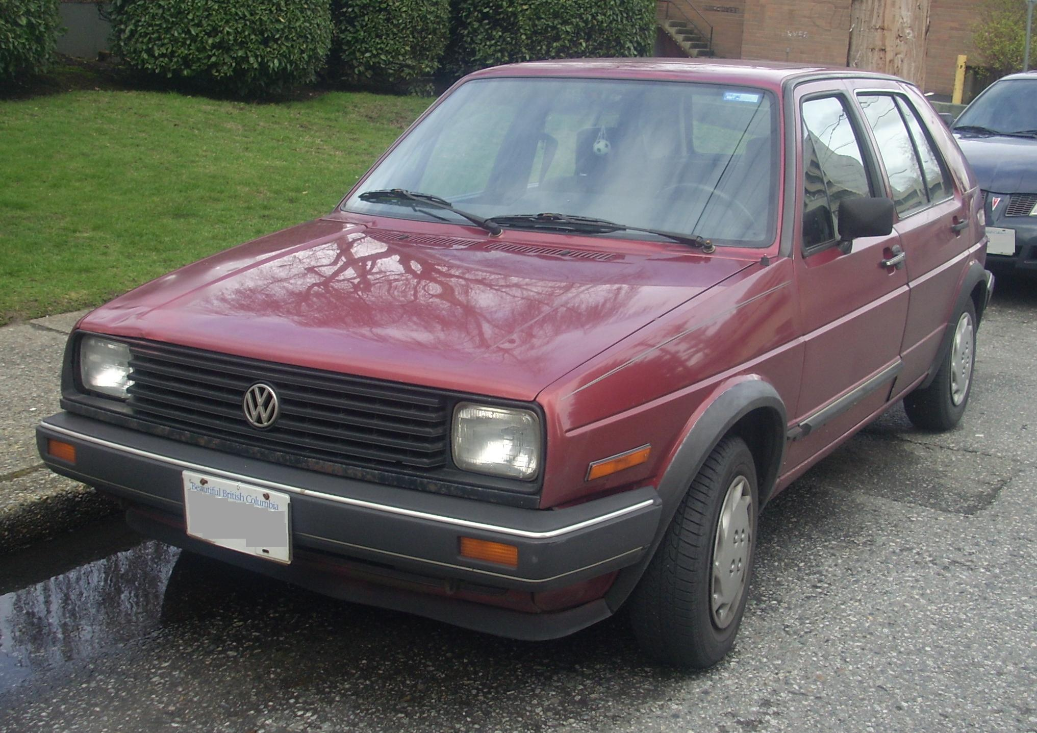 1985-1986 Volkswagen Golf Diesel photographed in New Westminster, British Coumbia, Canada.